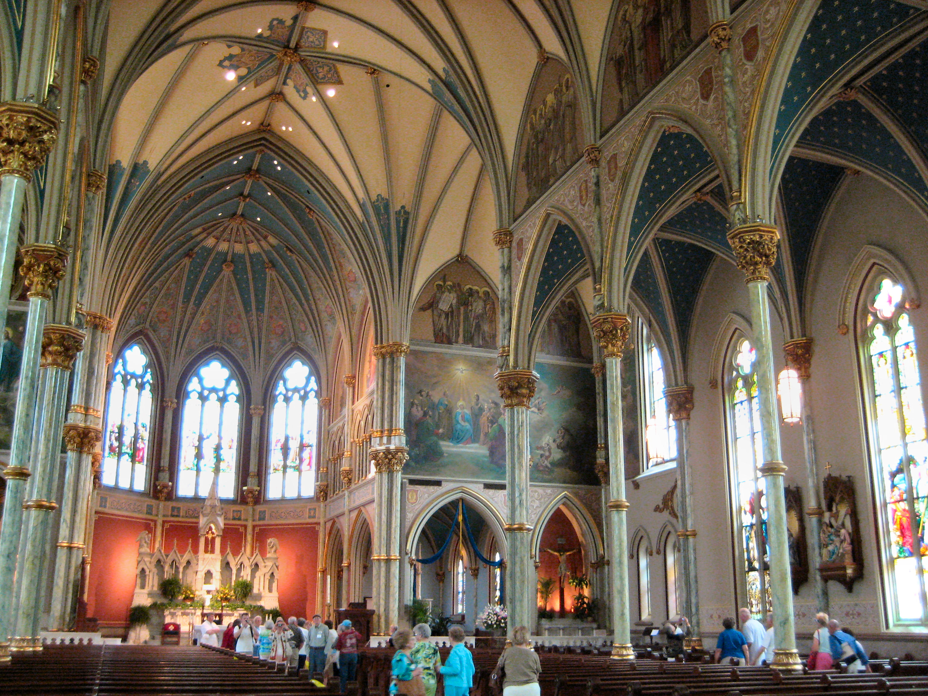 St. John the Baptist Church, Savannah (Georgia).